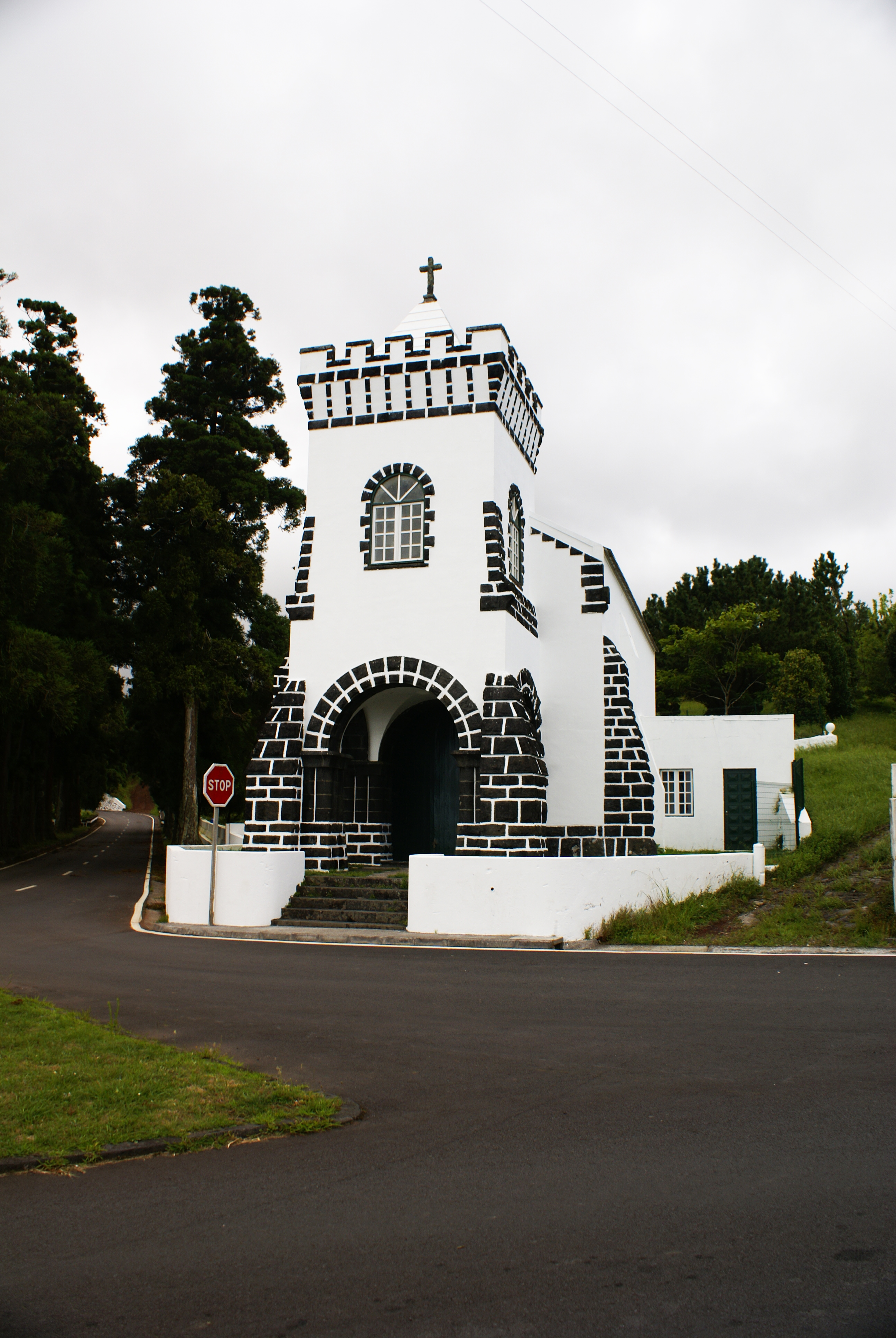 Chapel of Saint John, in the foothills of Flamengos, Horta, Faial (Azores), Portugal